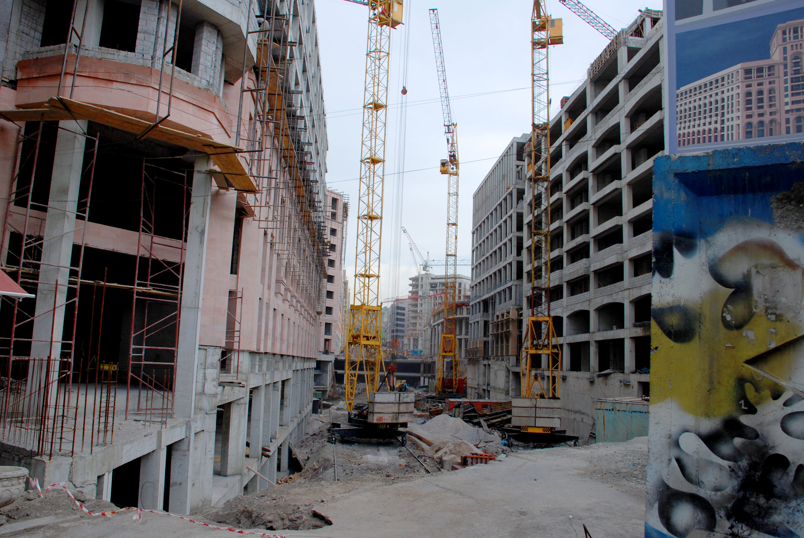 Northern Avenue Yerevan